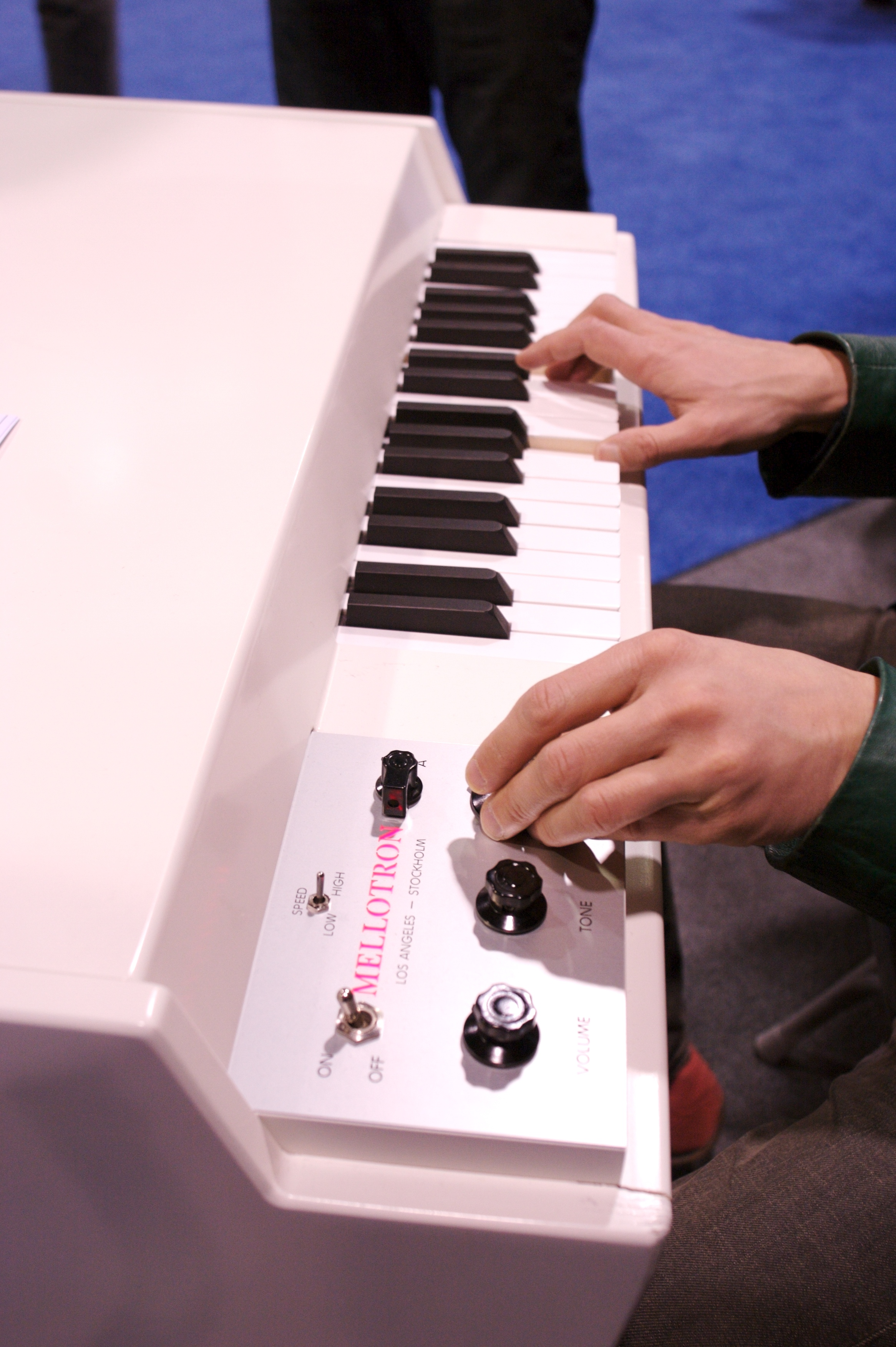 A Mellotron is a 1960s electro-mechanical keyboard that generates audio by playing back tapes, making it effectively an old school sampler. It can be heard at the beginning of The Beatles "Strawberry Fields Forever".